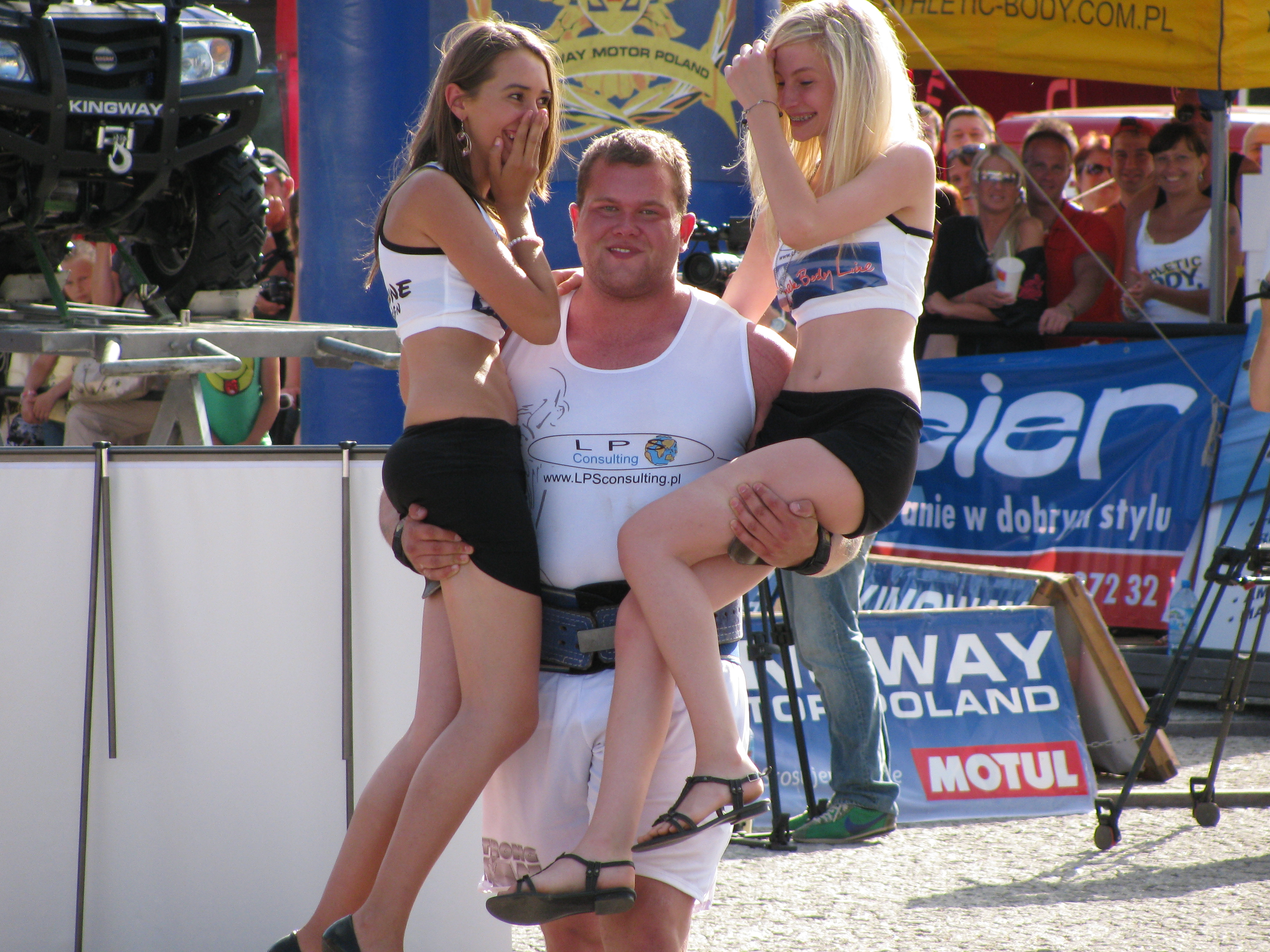 Stefán Sölvi Pétursson - a strength athlete from Iceland.